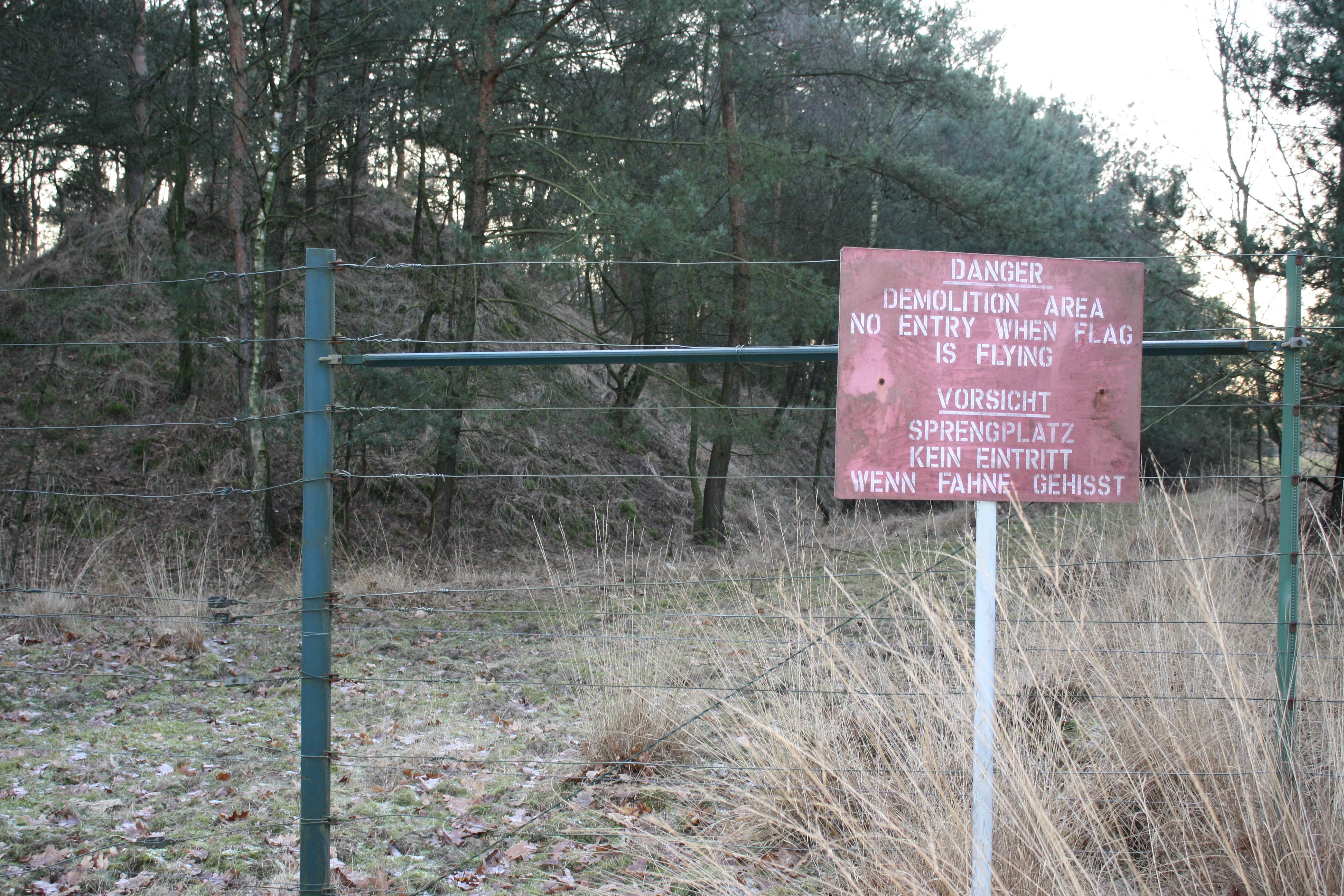 Former English Royal air force base in Brüggen (bomb depot)